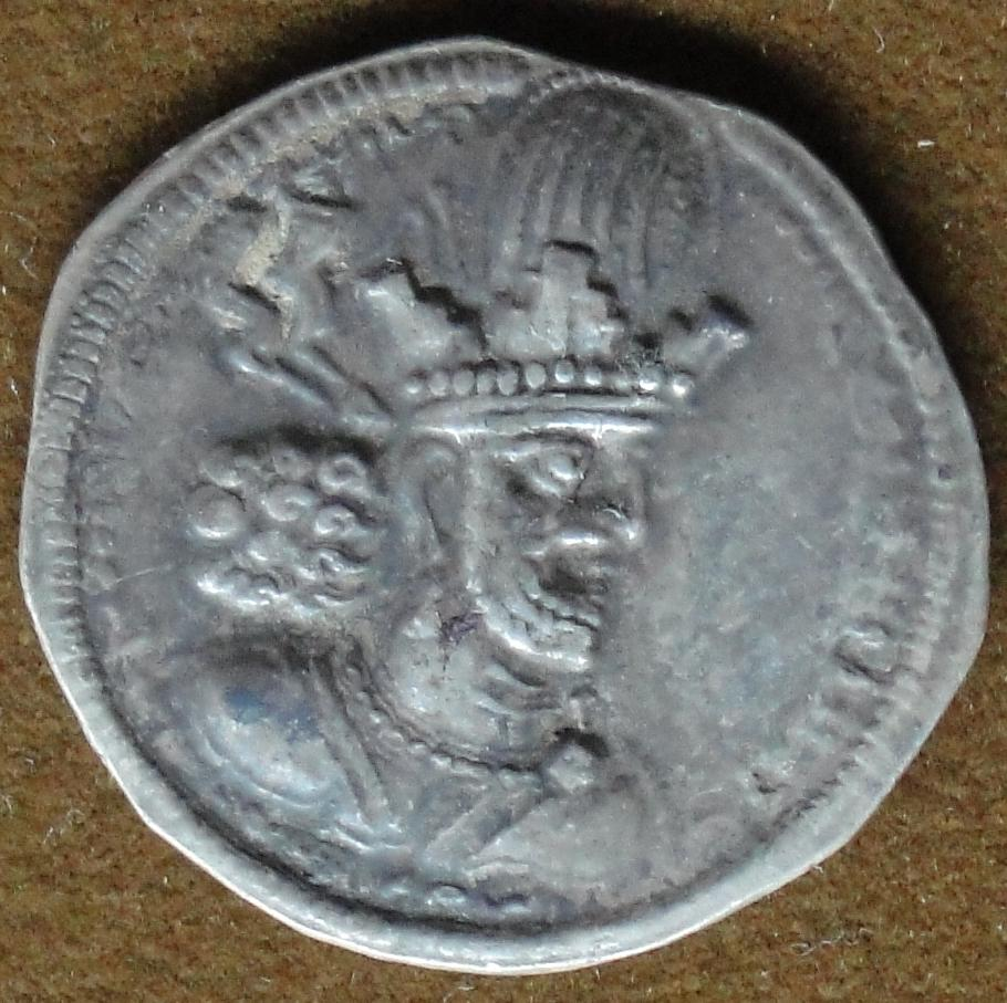 Shapur II Sassanid silver coin